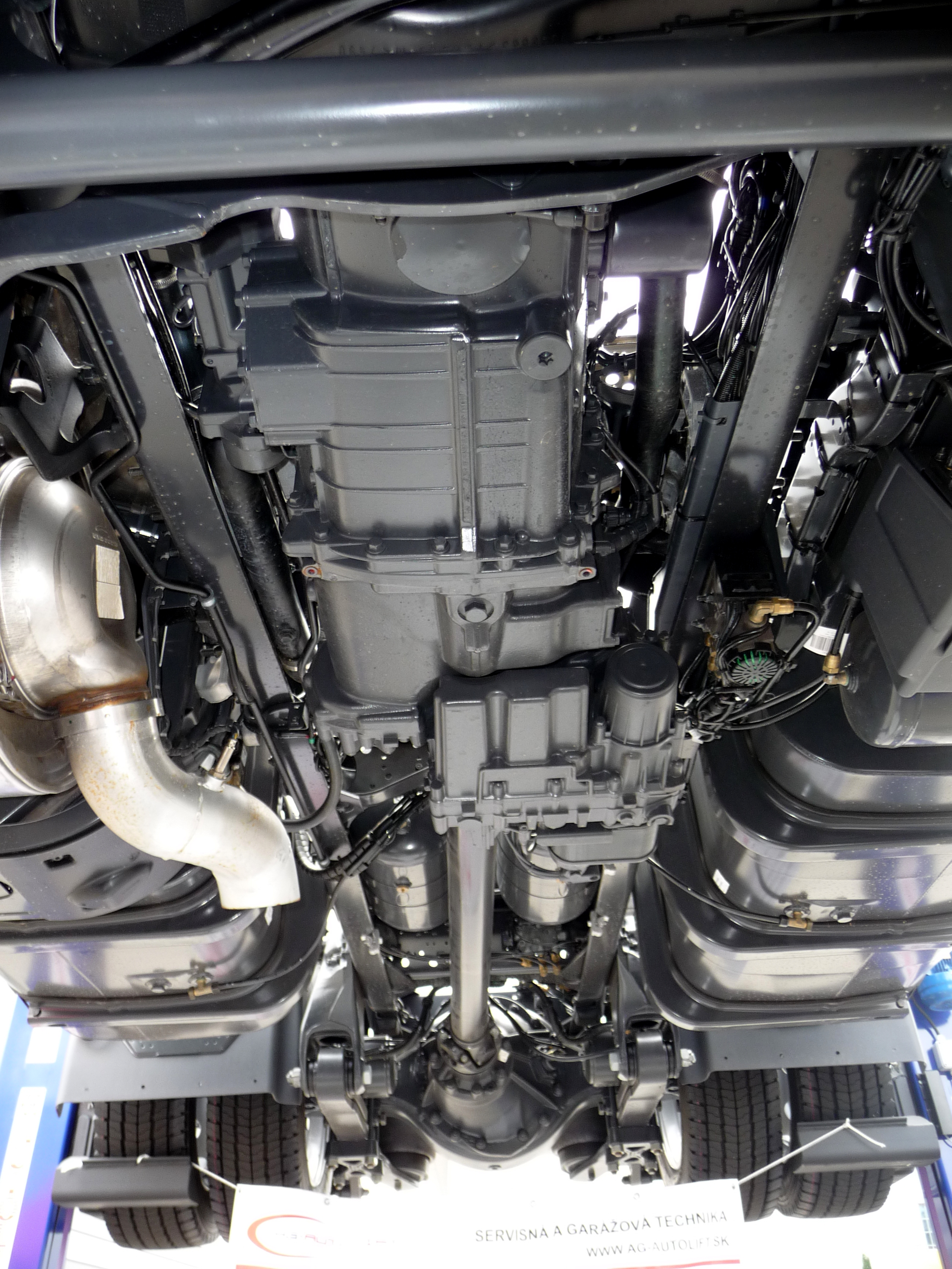 Bottom of Scania R420 on the plint, Autosalon Brno 2011, The Brno Exhibition Grounds -10 -5 -3 -2 ◄ ► +2 +3 +5 +10